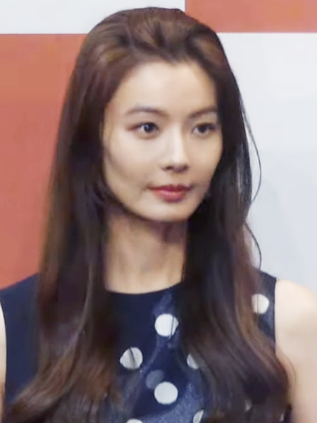 Yoon So-yi attending the press conference of KBS 2TV Daily Drama "A Place In The Sun", on 30 May 2019.